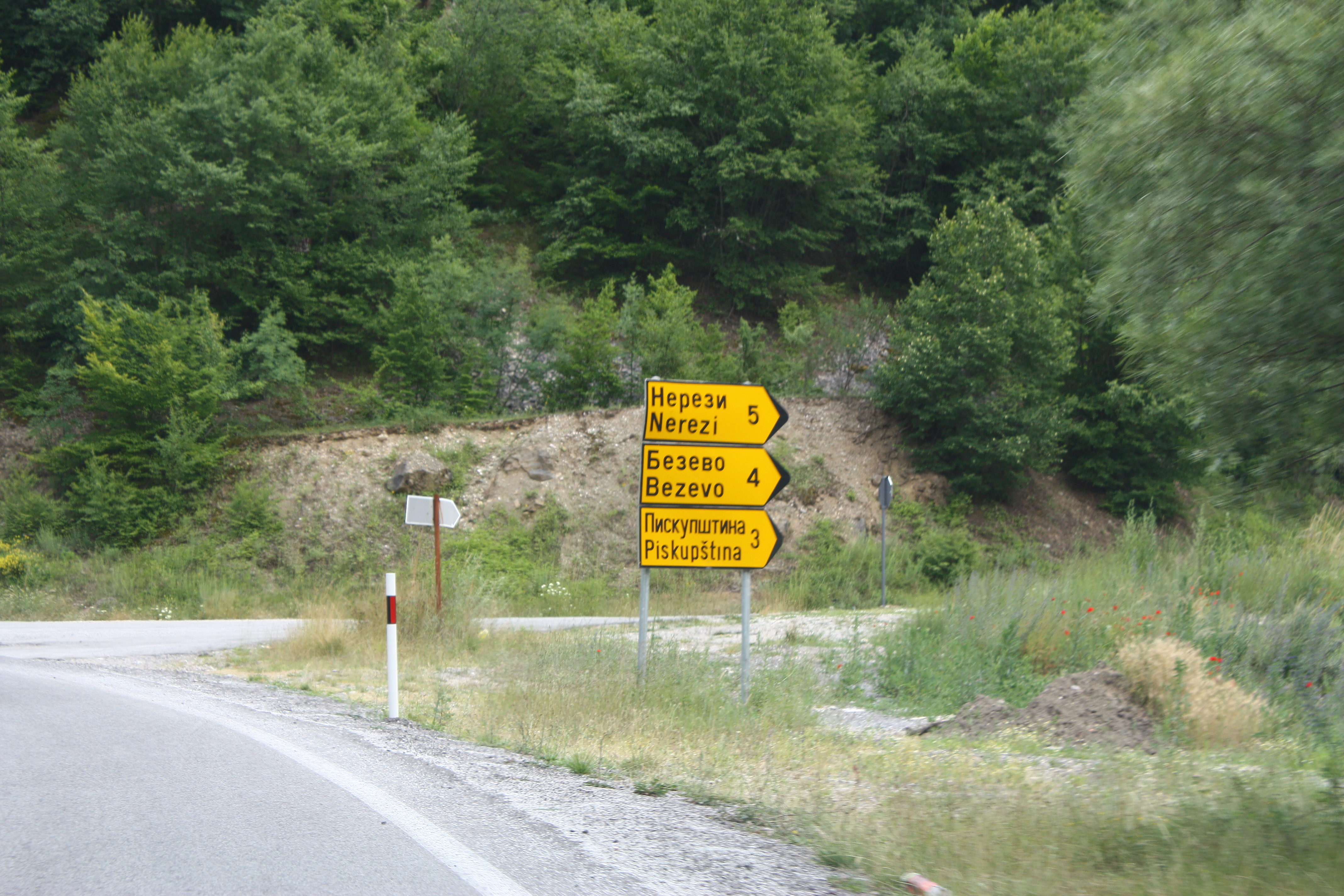 Road sign to Nerezi-Bezovo-Piskupština, Macedonia – Безово/Bezovo spelled Безево/Bezovo on the sign